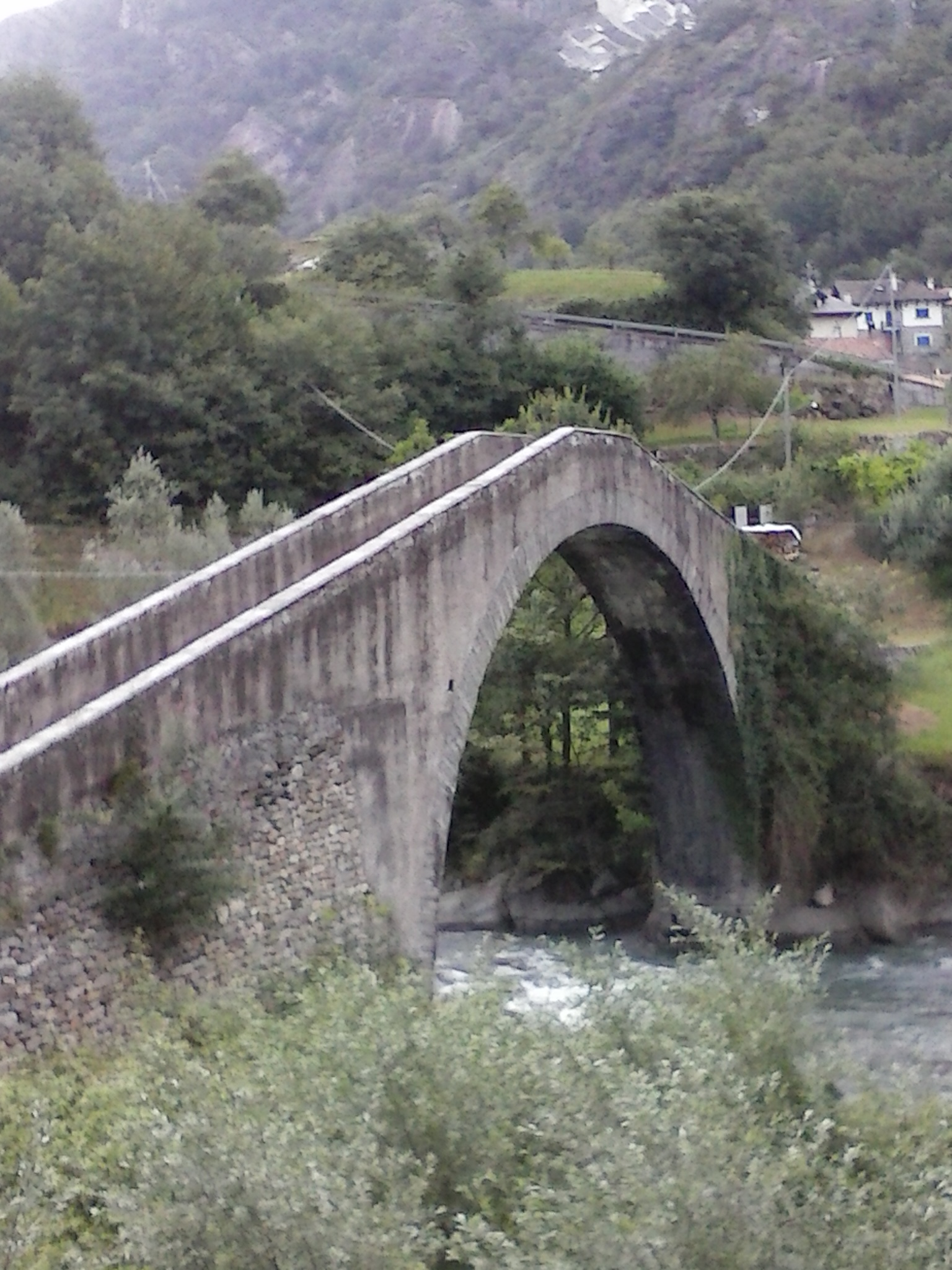 Bridge over the Toce river near Pontemaglio in Italy